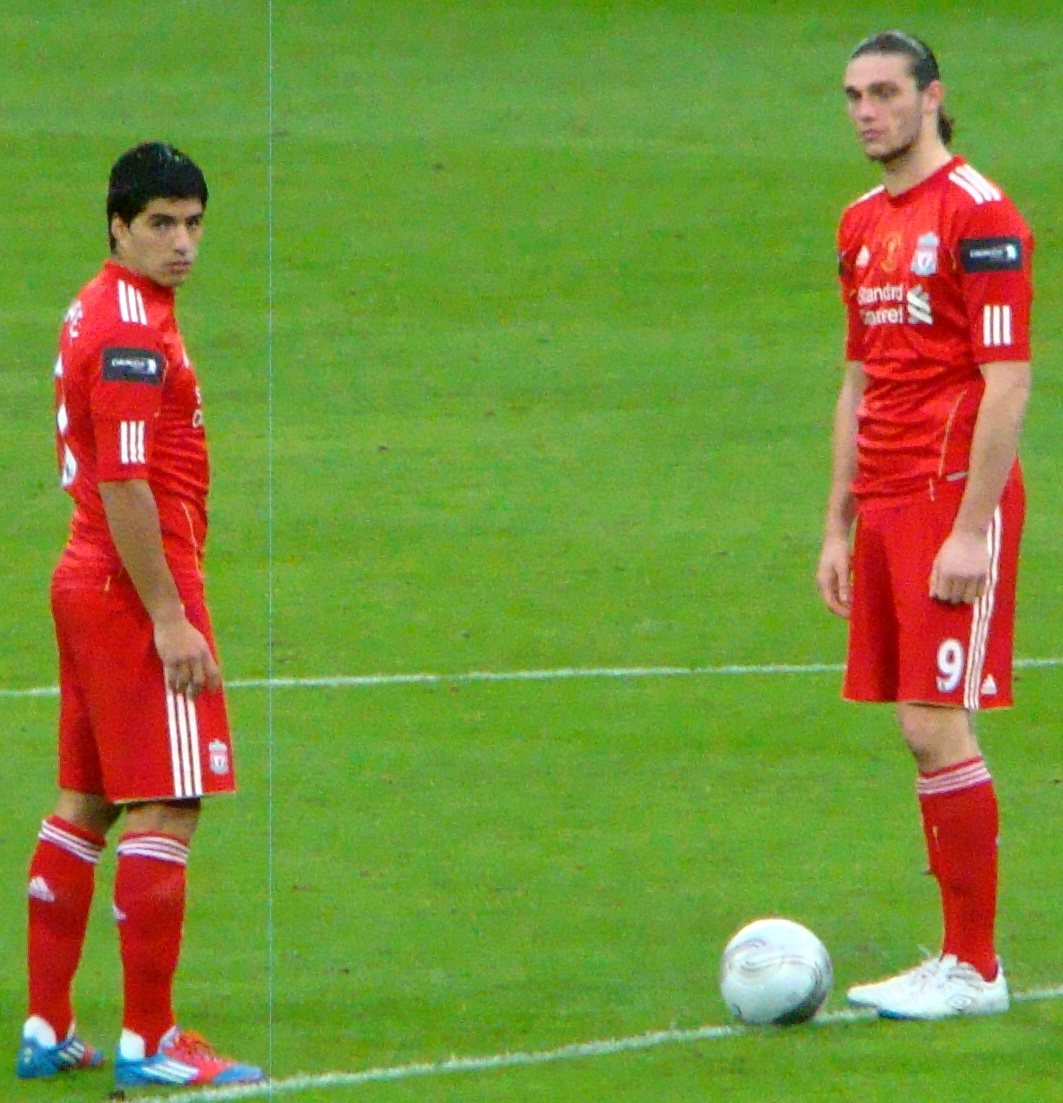 Luis Suarez and Andy Carroll. 26/02/12 Cardiff V Liverpool, Football League Cup Final, Wembley, London